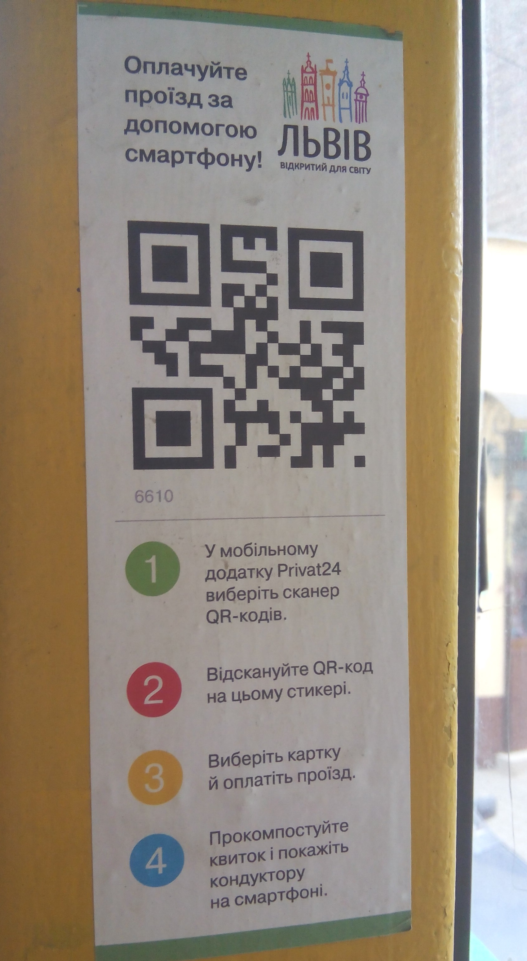 QR code with instructions, for paying the fare in Lviv tram via online banking system «Privat24».